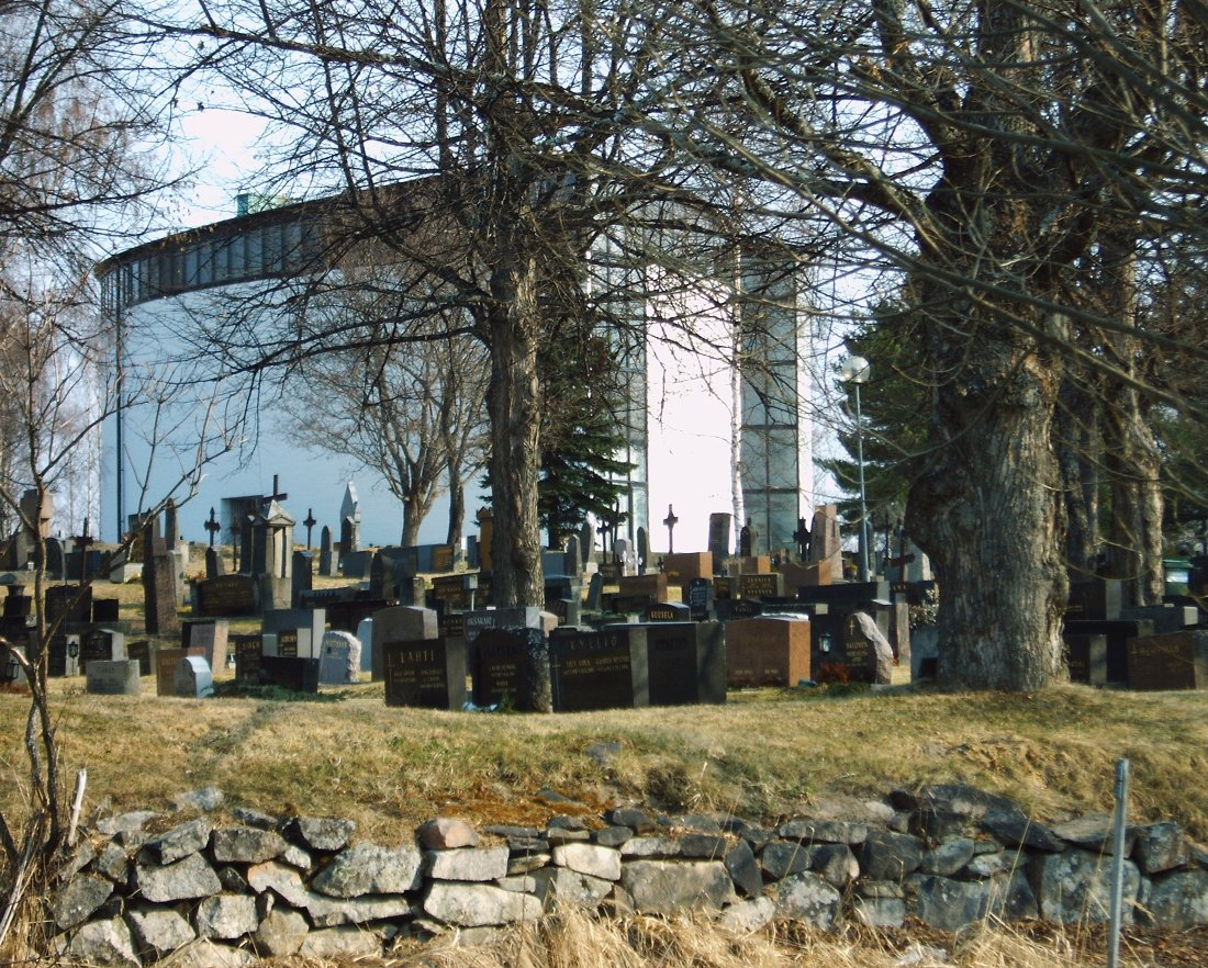 Modern church in Orivesi, Finland